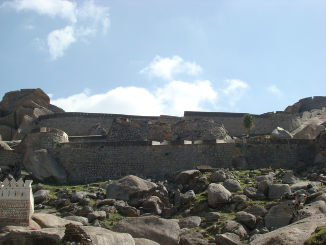 The picture of Madhugiri fort from the foot of the hill